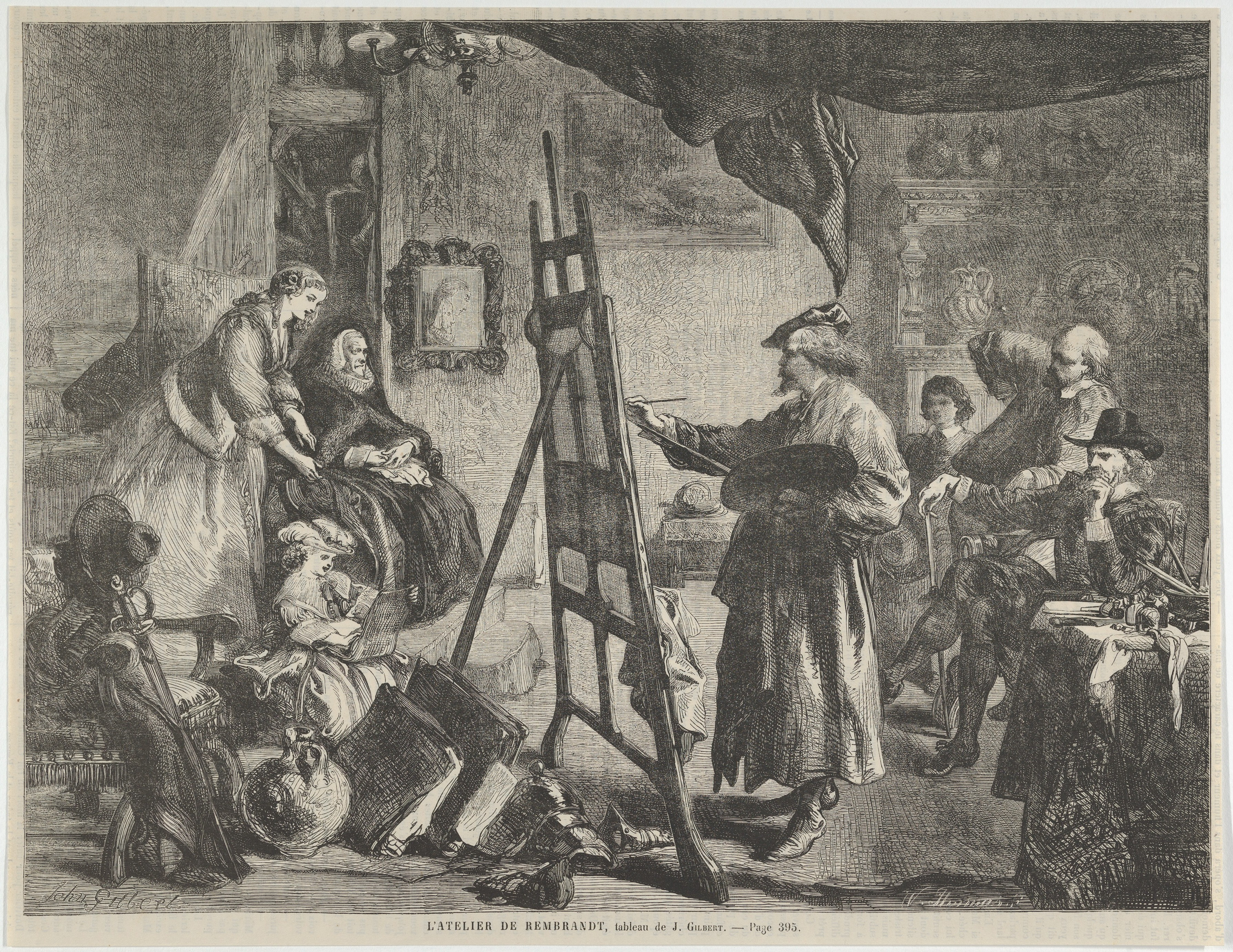 L'Atelier de Rembrandt, tableau de J. Gilbert (from L'Univers Illustré, p. 395), November 14, 1861. Engraving by William Luson Thomas (1830–1900) after a painting by Sir John Gilbert (1817–1897). Wood engraving